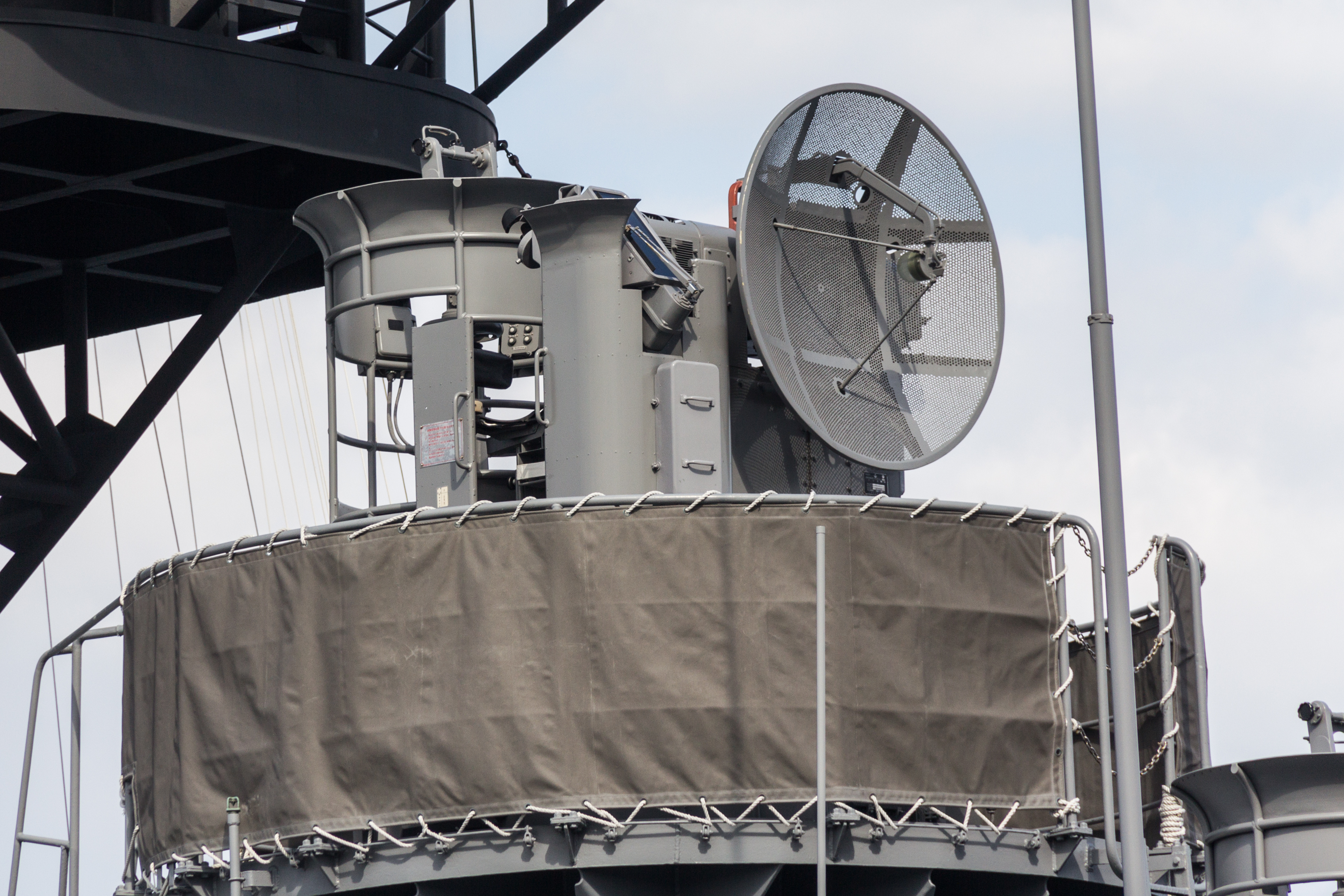 FCS-1A on JDS DDH-144 Kurama at Kobe (2013 Oct 27)